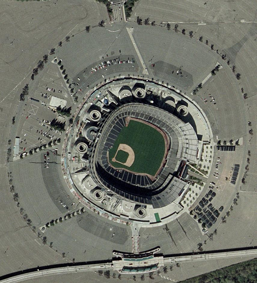 Qualcomm Stadium in San Diego, CA in March 2003 with baseball field setup.